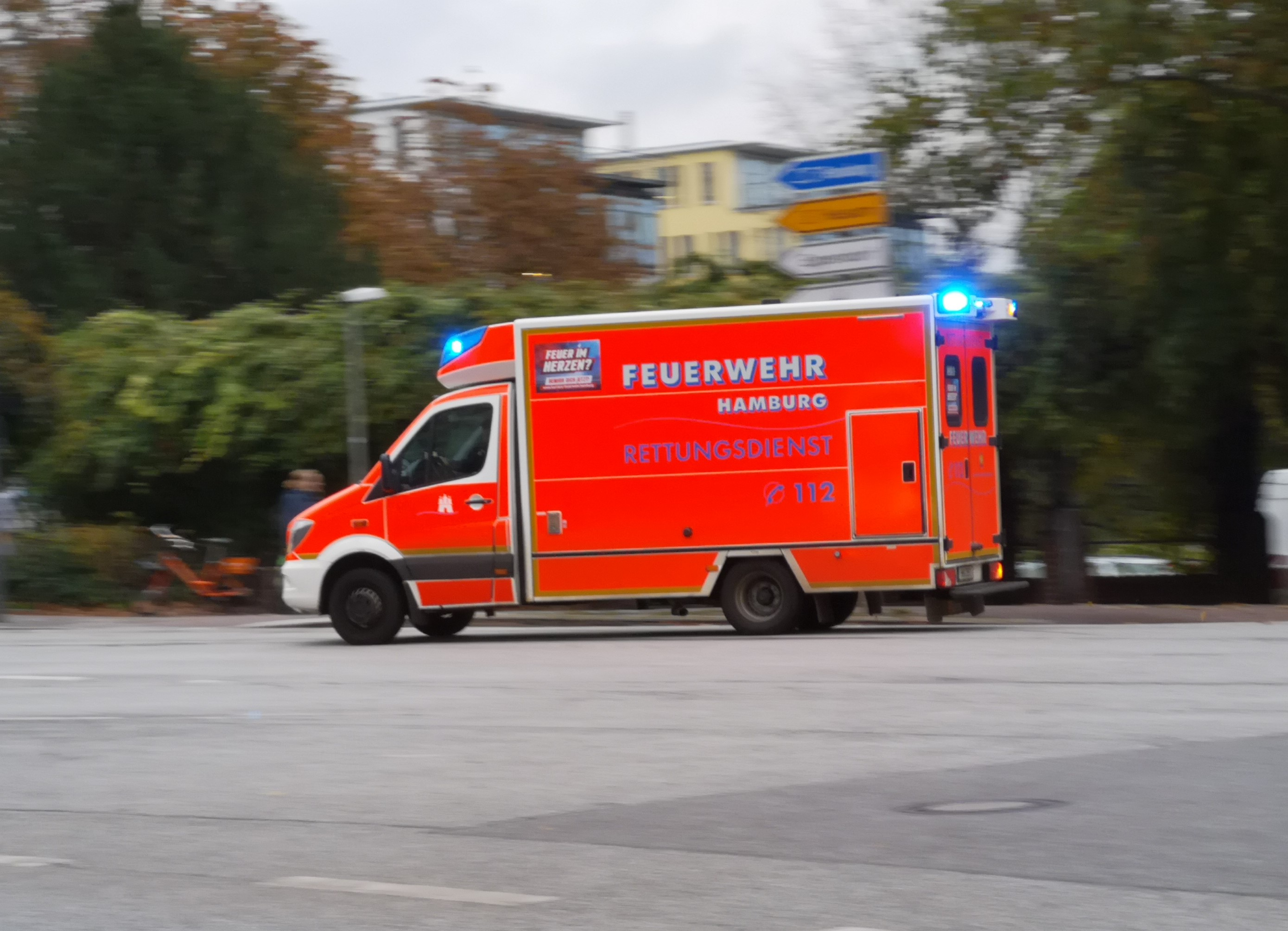 Ambulance in Hamburg